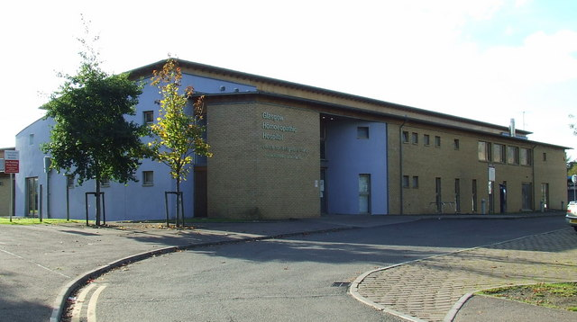 Glasgow Homeopathic Hospital. The only such hospital in the UK. See also 580196.